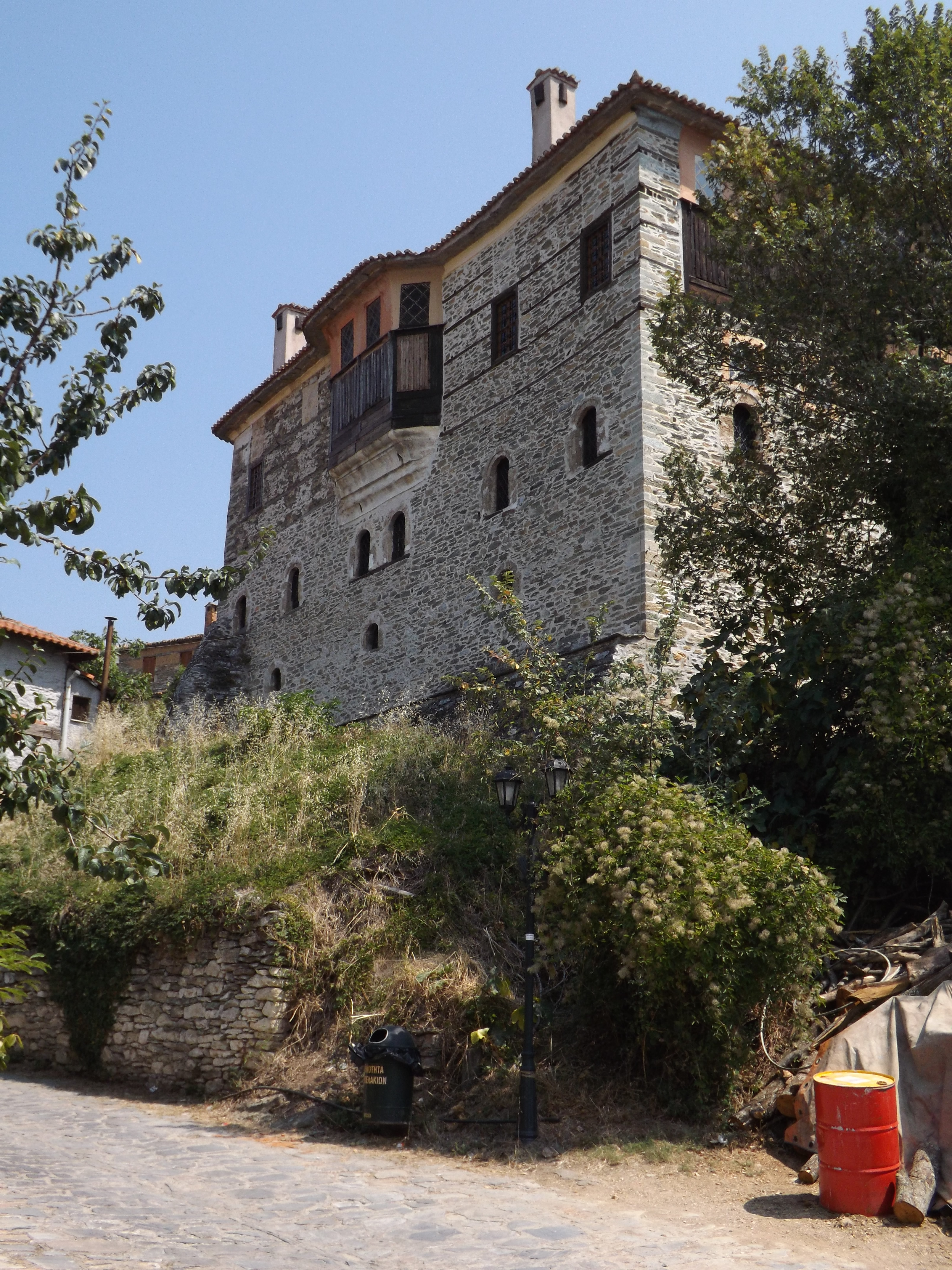 Georgios Mavros (Schwarz) masion in Ampelakia.